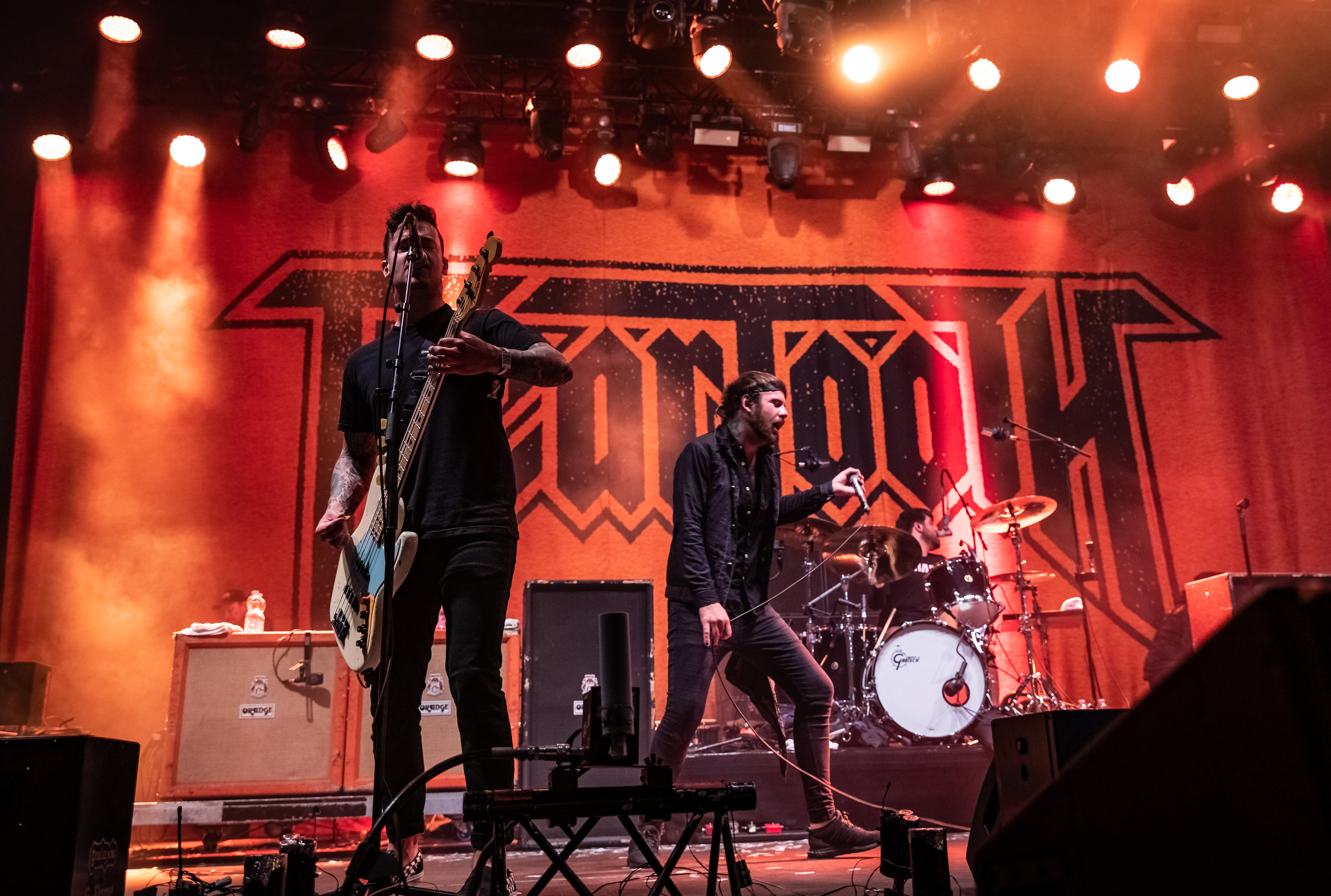 Beartooth - Rock am Ring 2019